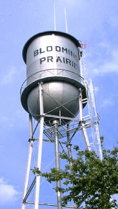 Photo I took in September 2006 of the water tower in Blooming Prairie, Minnesota. CC & GFDL.